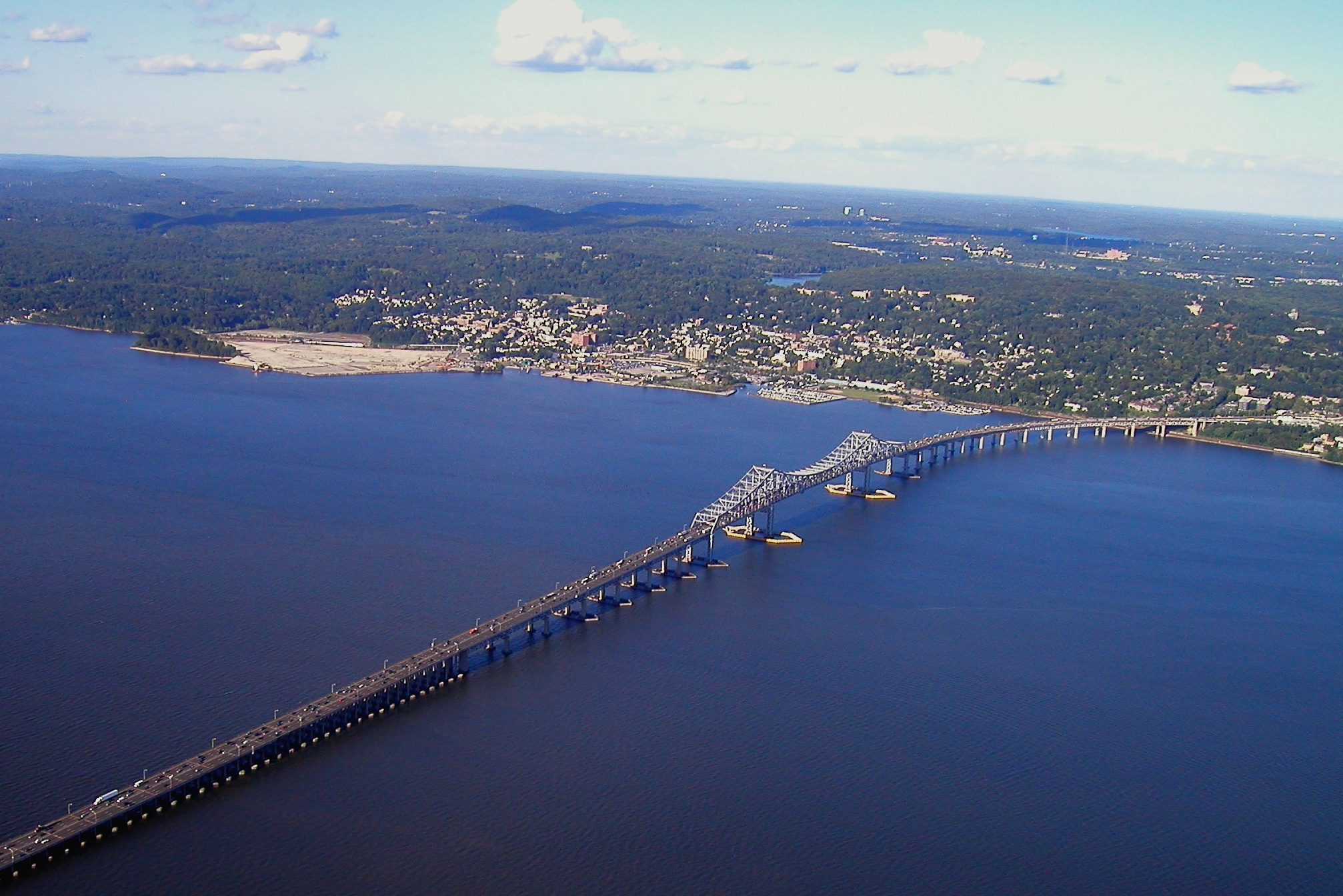 Tappan Zee Bridge